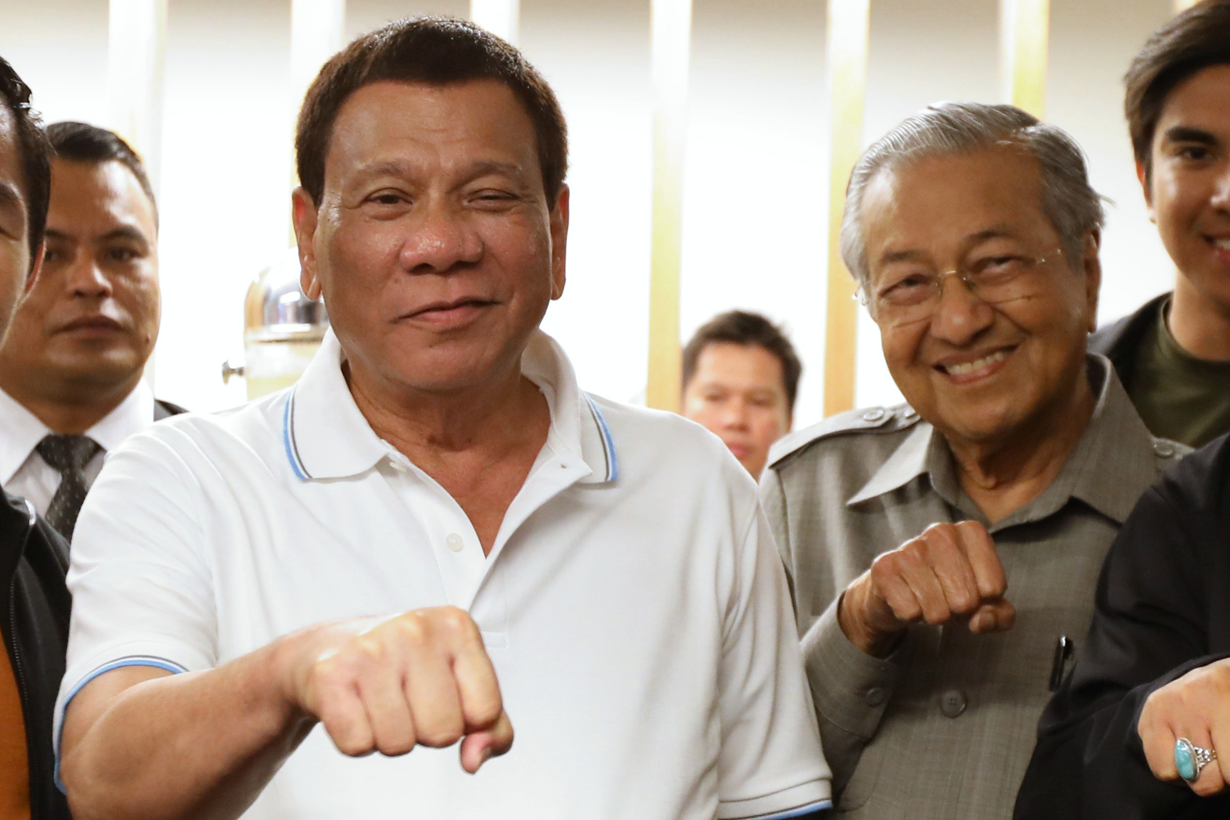 President Rodrigo R. Duterte strikes his signature pose with Malaysia Prime Minister Mahathir Bin Mohamad after boxing icon Senator Emmanuel "Manny" Pacquiao earned a knockout victory to claim the World Boxing Association (WBA) Welterweight title at the Axiata Arena in Kuala Lumpur, Malaysia on July 15, 2018. Pacquiao stopped Lucas Matthysse in the seventh round of their bout.